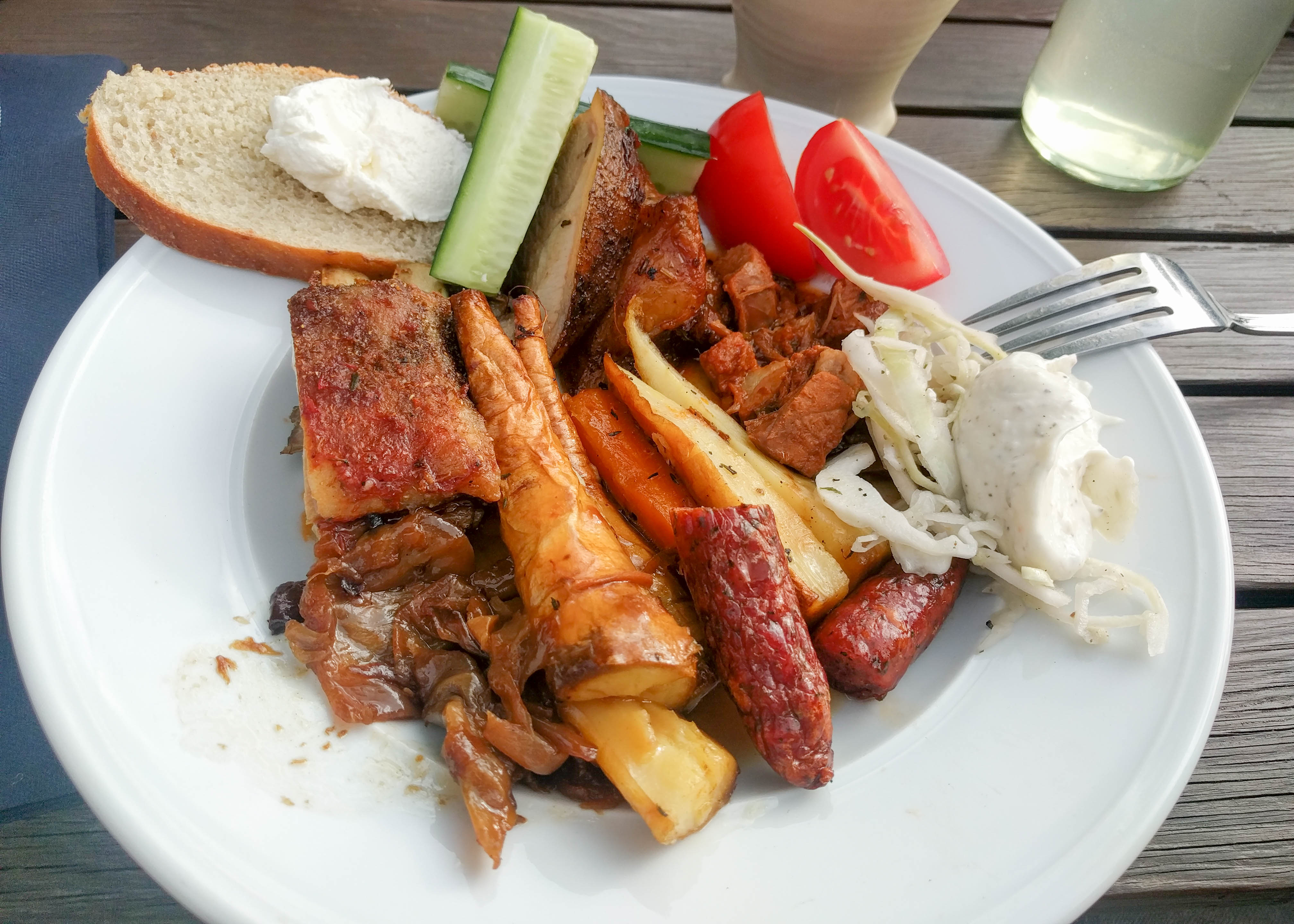 Lamb feast - Buffet with pieces of lamb served with root vegetables, cabbage, bread and various vegetables.